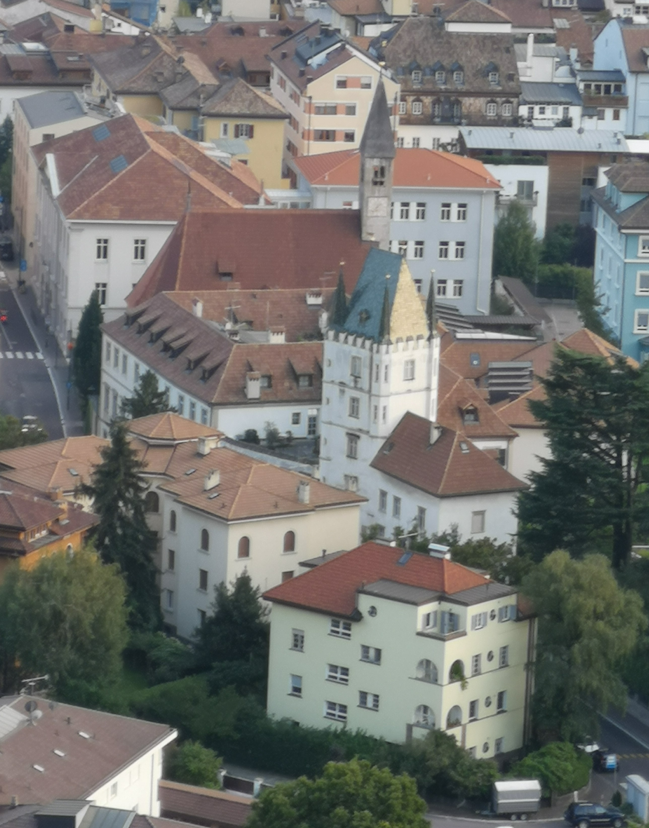 The Weggenstein OT premises in Bozen as viewed from the Oswaldpromenade